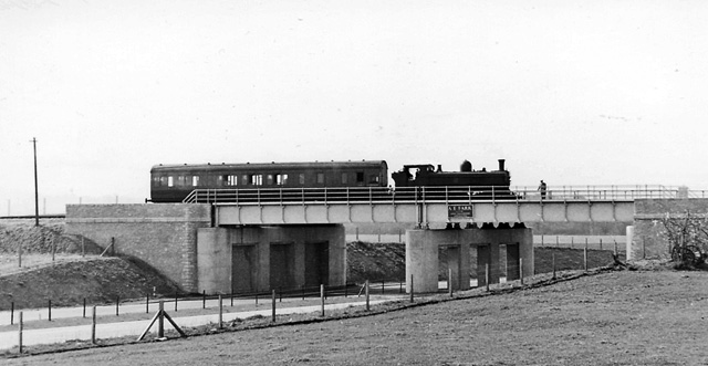 M50 Motorway under construction: railway overbridge. Ashchurch - Upton-on-Severn train crossing M50 next to Bow Lane, just south of Ripple